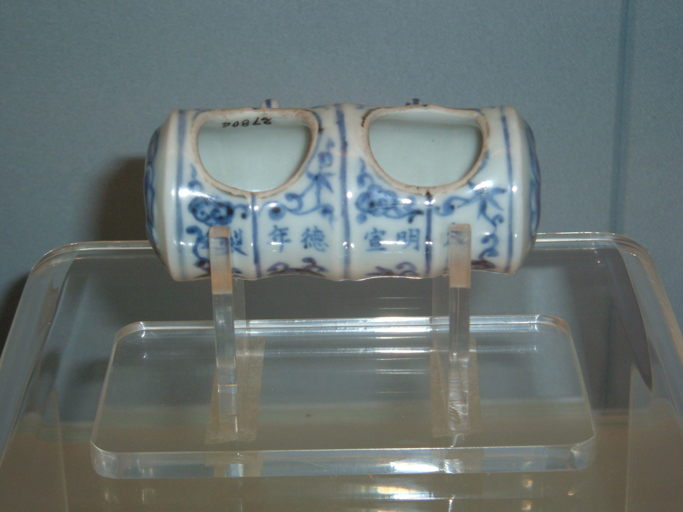 Bird feeder with underglaze, blue design. Jingdezhen ware, Ming Dynasty, reign of Xuande (1426-35). On display at the Shanghai Museum in Shanghai, PRC.